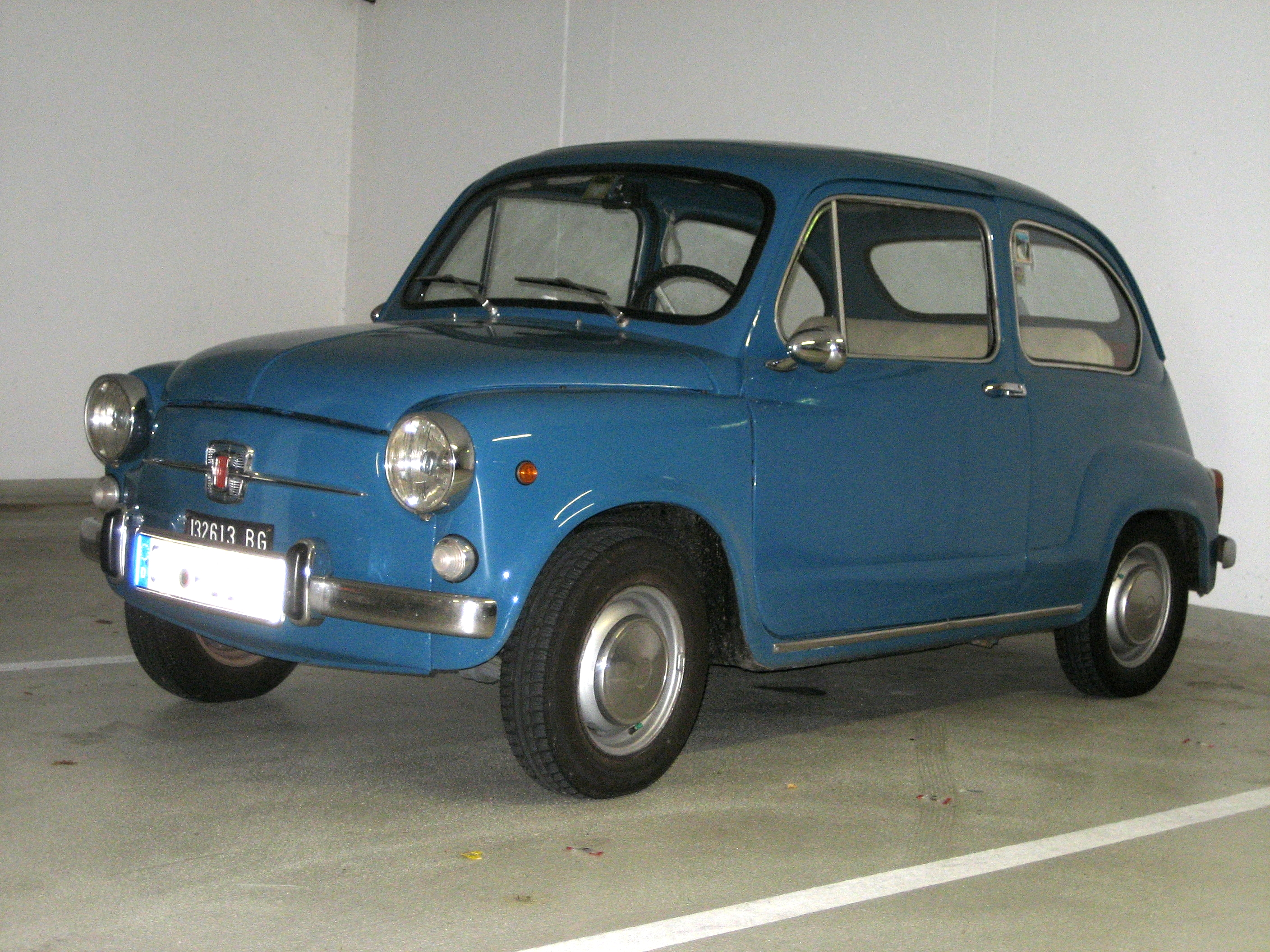 Fiat 600